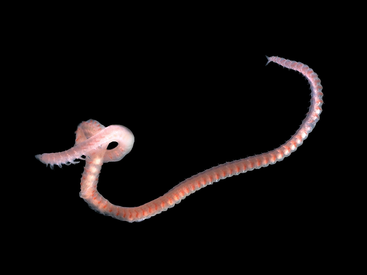 Spionid polychaete from the Belgian part of the North Sea. Lab image. Length = ~17 mm